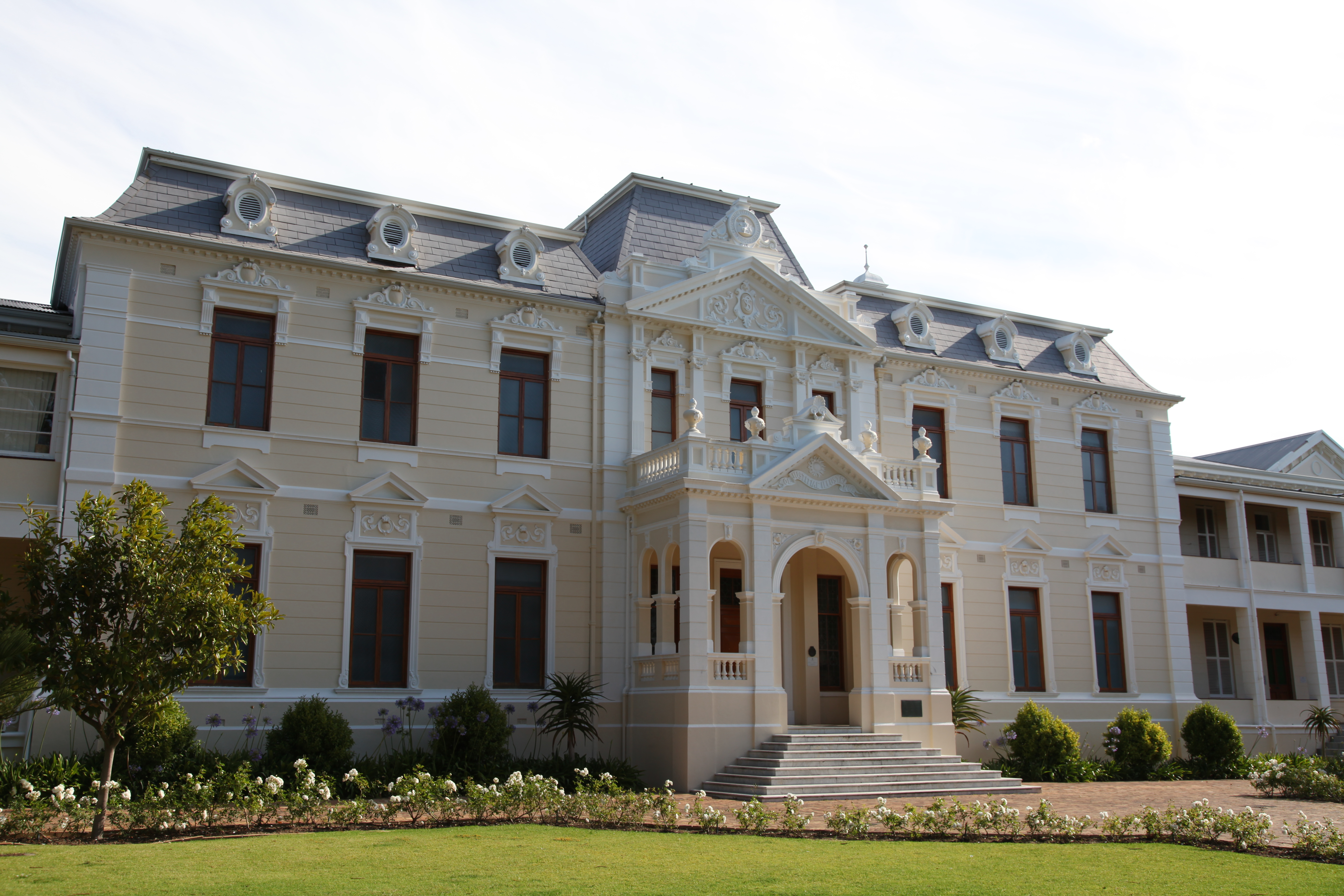 This building, dating in part to 1763, stands on the site of the oldest public building in Stellenbosch, the Drostdy. This media shows a South African Protected Site with SAHRA file reference 9/2/084/0122.